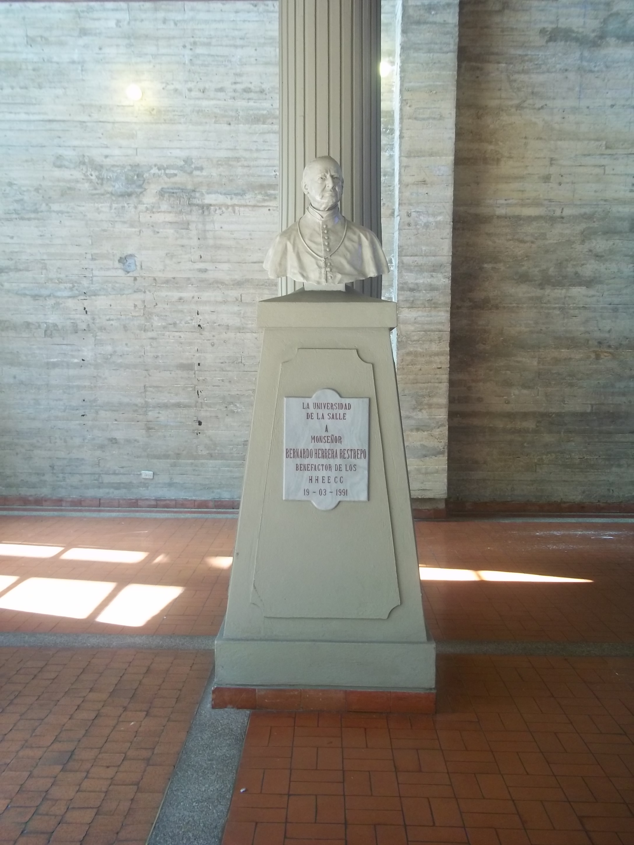 Bust of Monseñor Bernardo Herrera in the Chapinero's see chapel